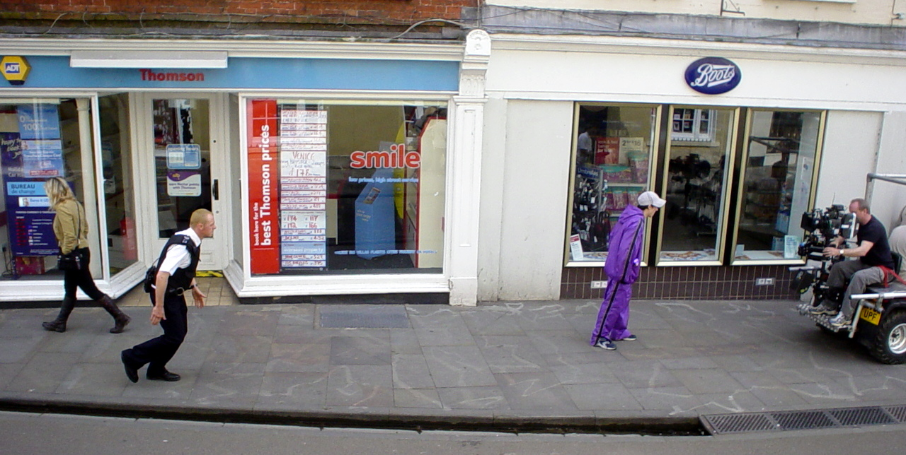 Start of a scene from Hot Fuzz being filmed in Wells.